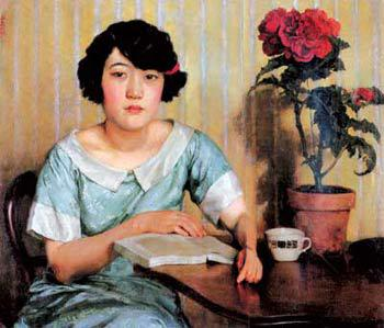 Jiang-Biwei-Chang-Tao-fanJiang Biwei or Tangzhen Jiang (1899 – 1978) was influential in the lives of the painter Xu Beihong and the politician Chang Tao-fan. Image created in 1925 - before 1953 as artist died (50 years for China)